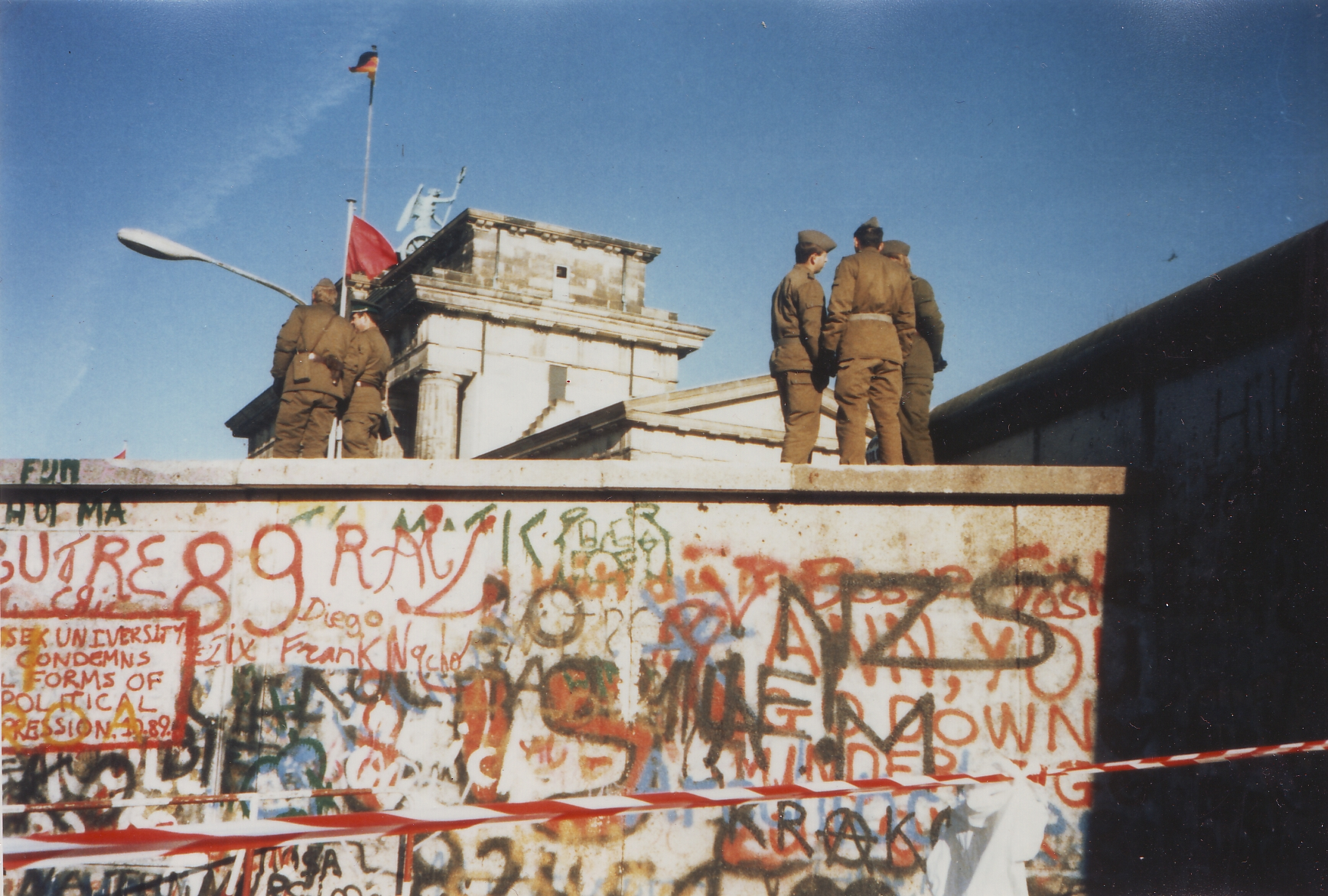 Berlin Wall on 16. November 1989.